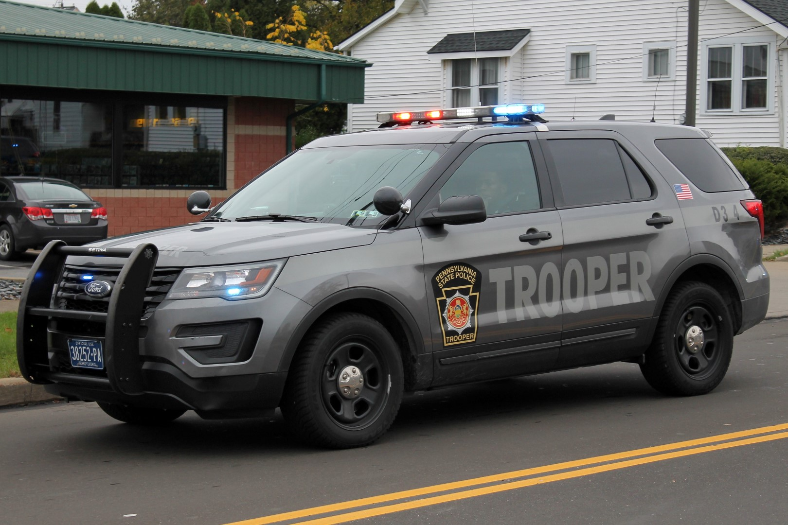 Pennsylvania State Police Ford Interceptor Utility